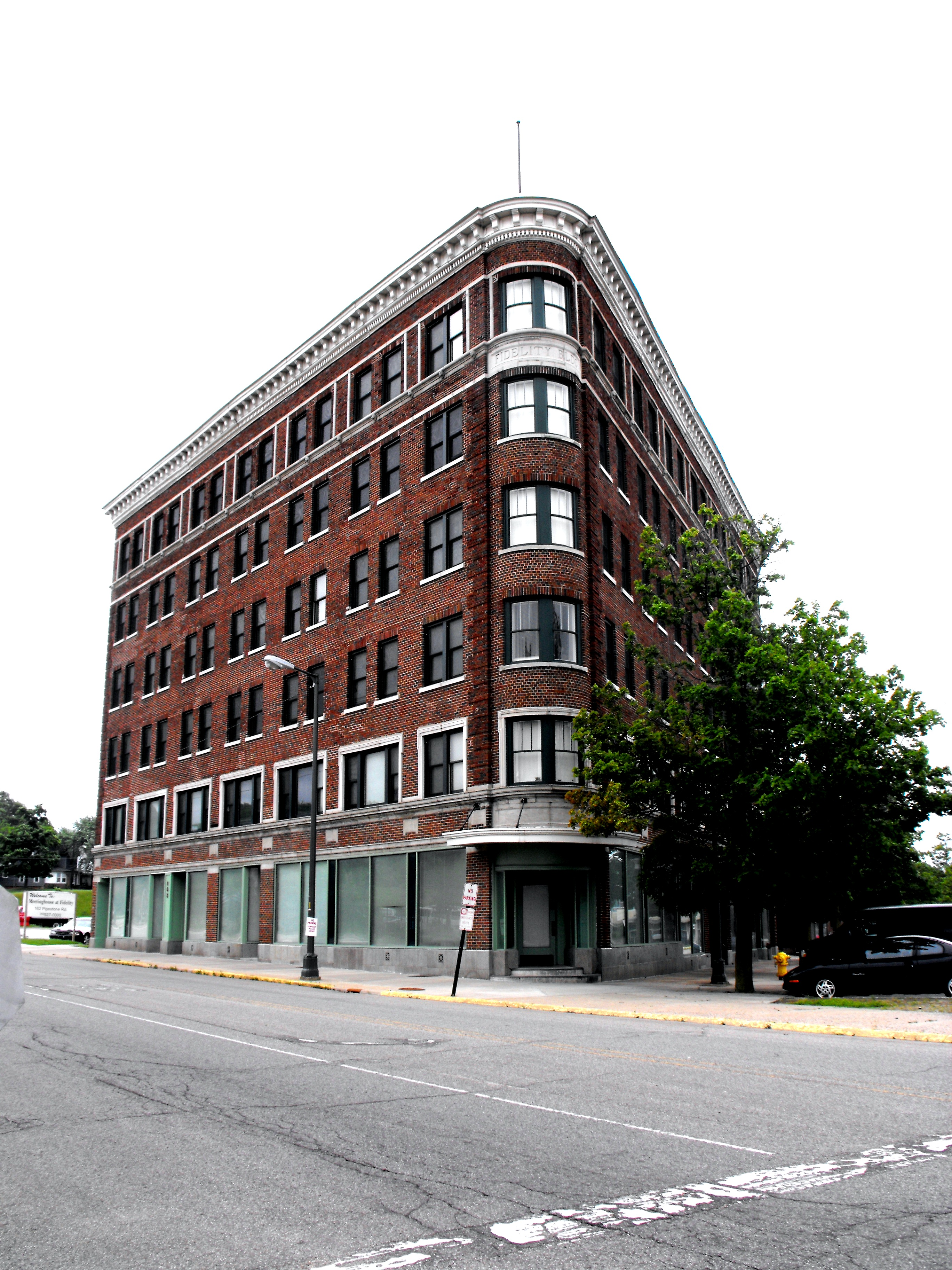 Fidelity Building, Benton Harbor, Michigan, listed in the National Registry of Historic Places